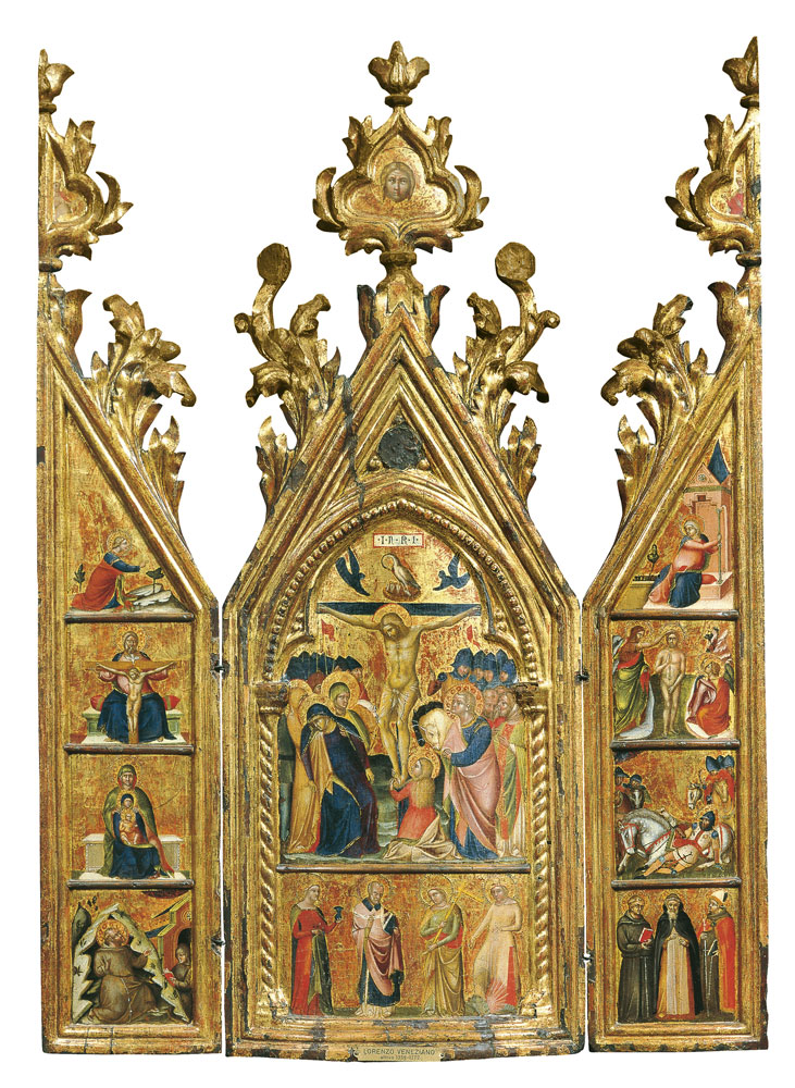 Lorenzo_Veneziano._Triptych._1370-75._Museo_Thyssen-Bornemisza,_Madrid.